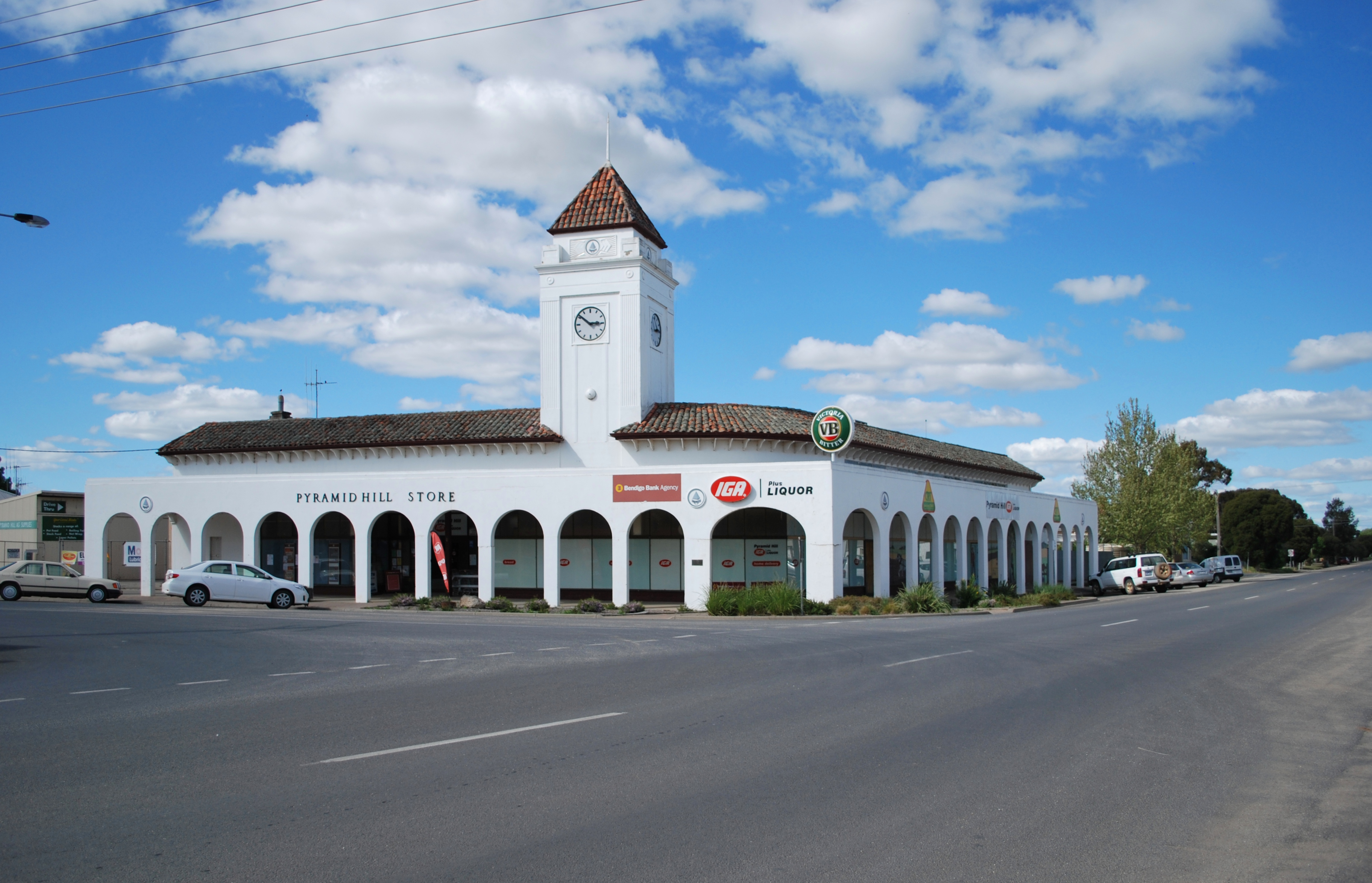 Pyramid Hill Store in Pyramid Hill, Victoria